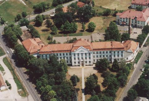 High School, Jászapáti, Hungary, aerialphotography